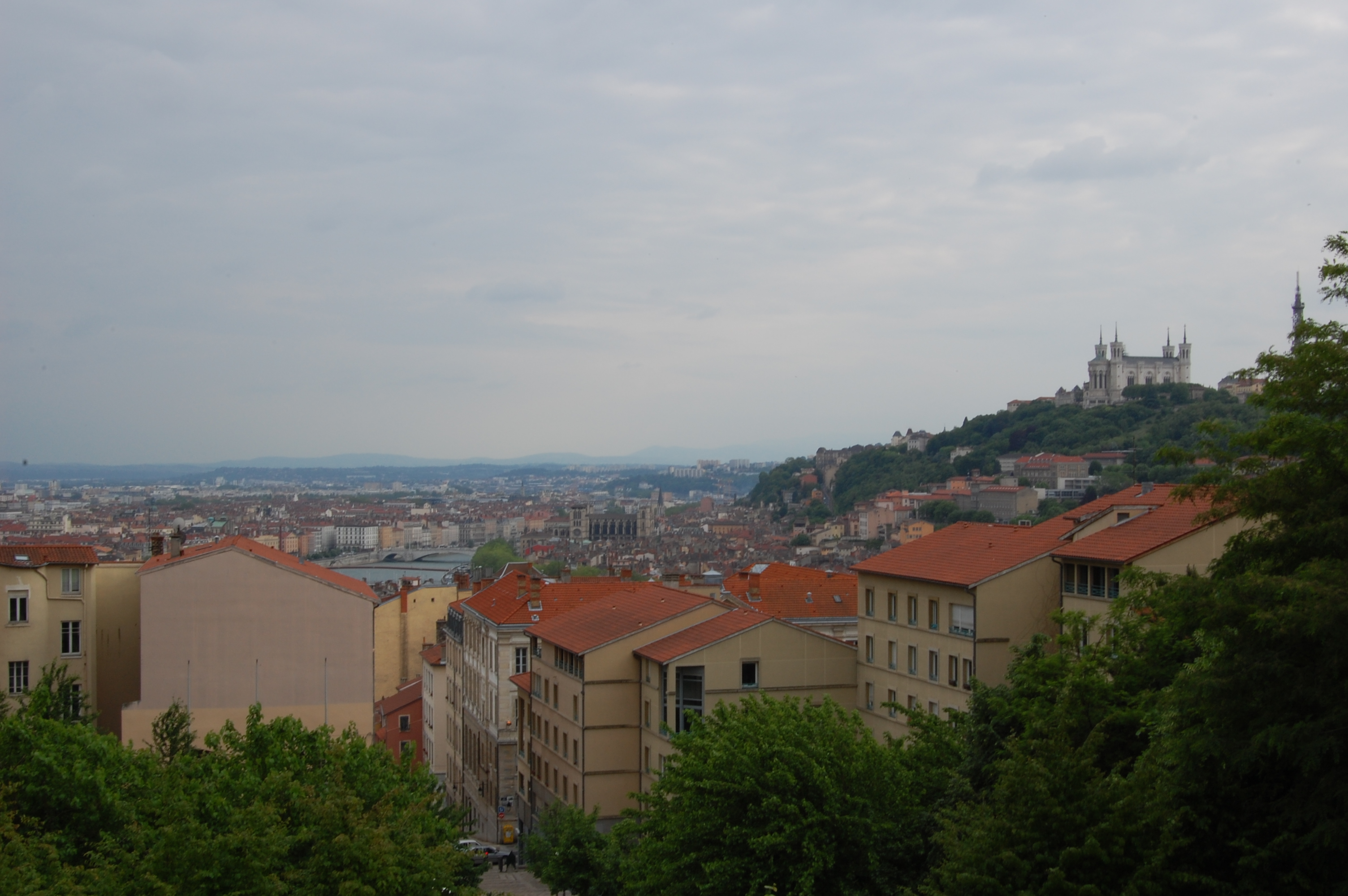 View of Lyon From Jardin des Plantes in Croix Rousse